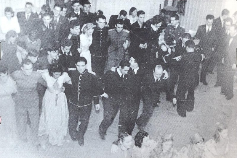 Players of Zrinjski, building of Hrvoje Mostar